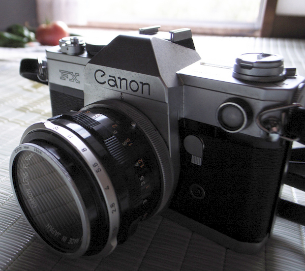 Unknown ??????????????????? ??????????????????????????? ??????????????????